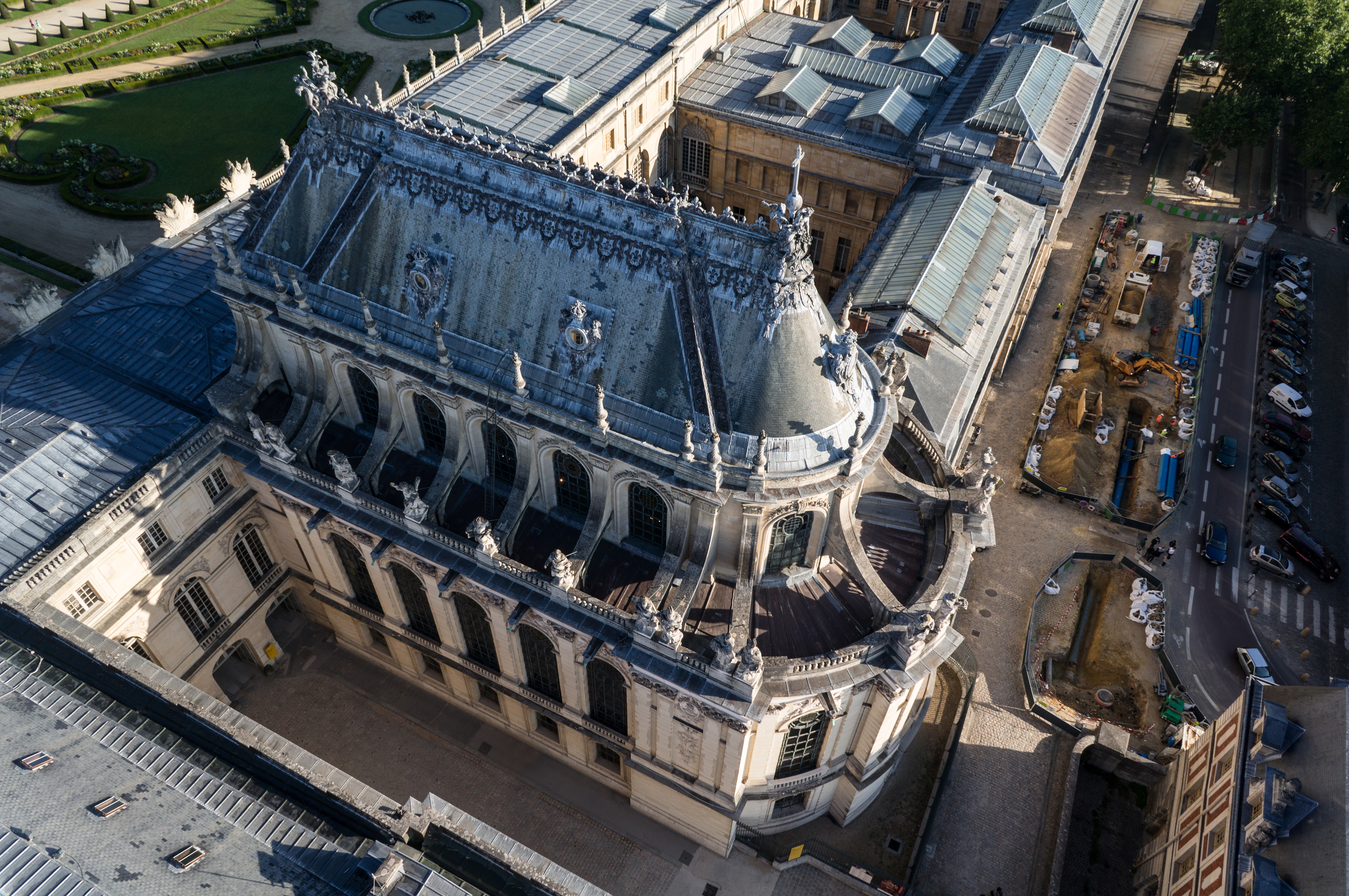 Aerial view of the Palace of Versailles, France